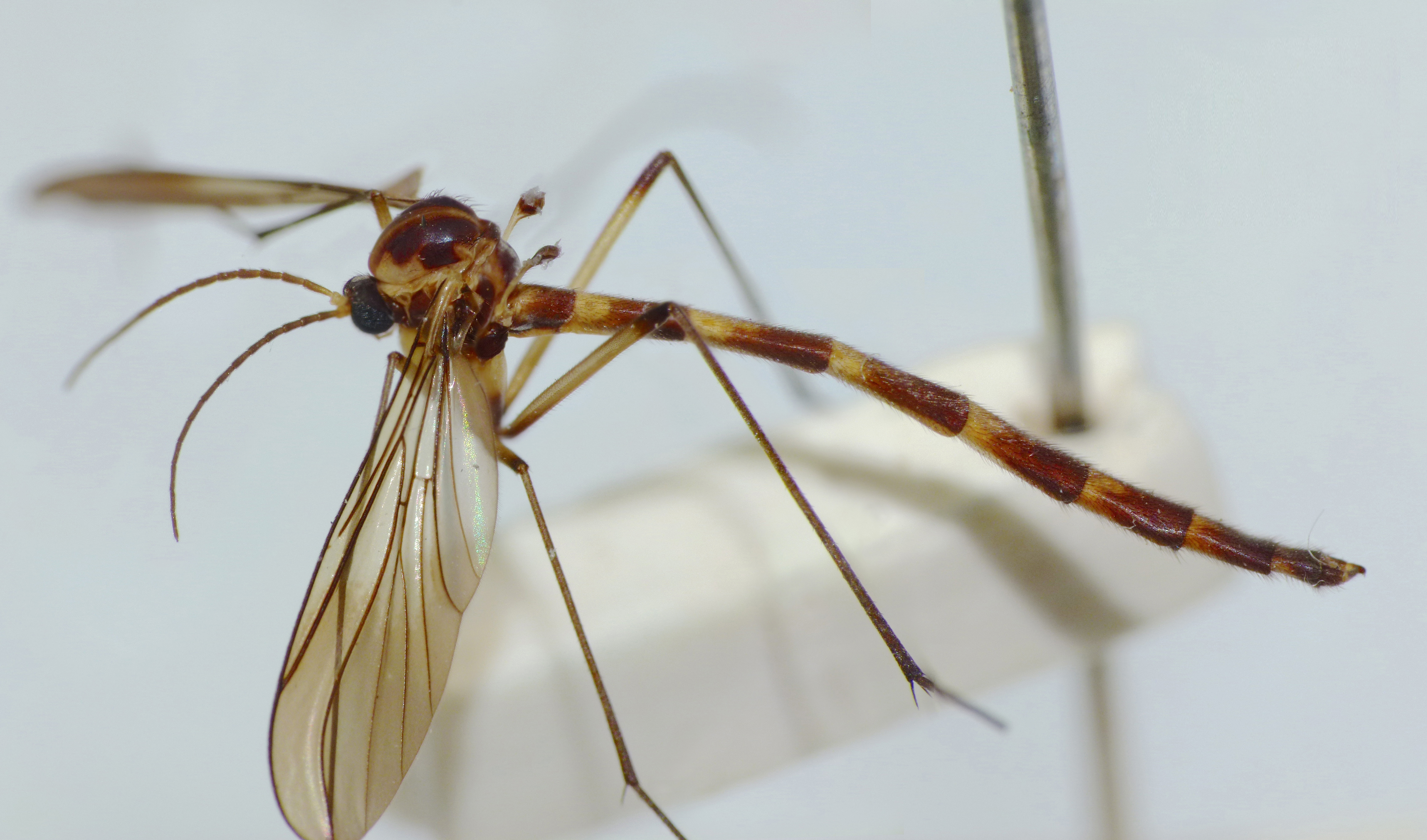 Lateral view of adult Keroplatidae: Arachnocampa luminosa - OMNZ IV106827Arachnocampa luminosa